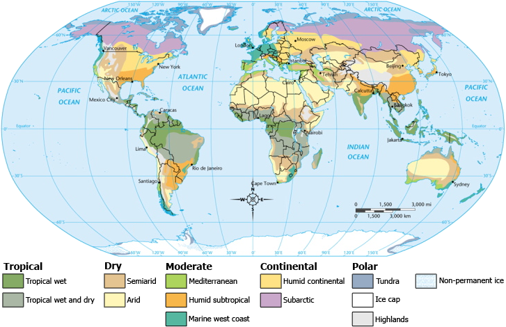 Climate zones of the world中文（中国大陆）: 世界气候区